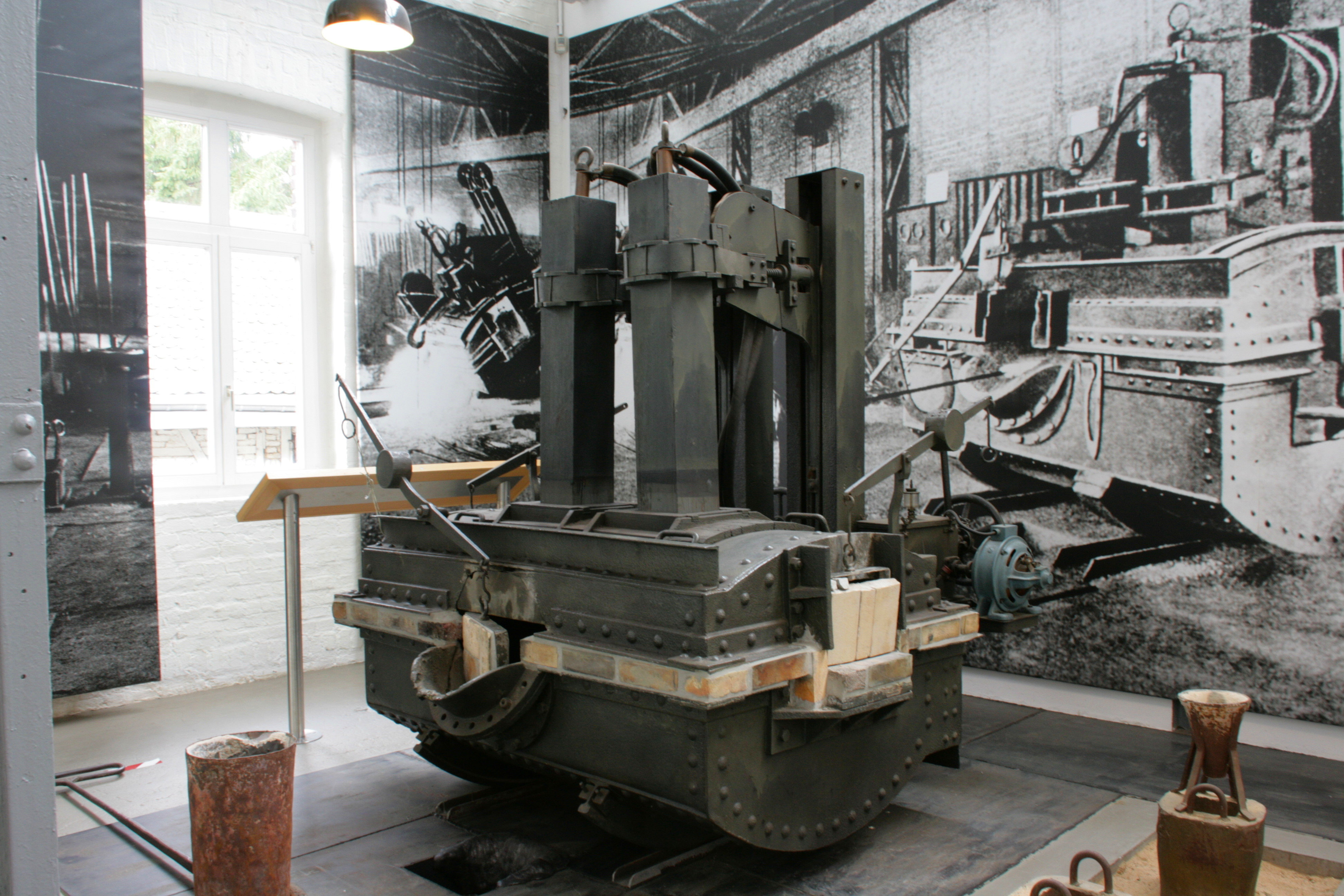 Lichtbogenofen im Deutschen Werkzeugmuseum, Cleffstraße 2-6 in Remscheid